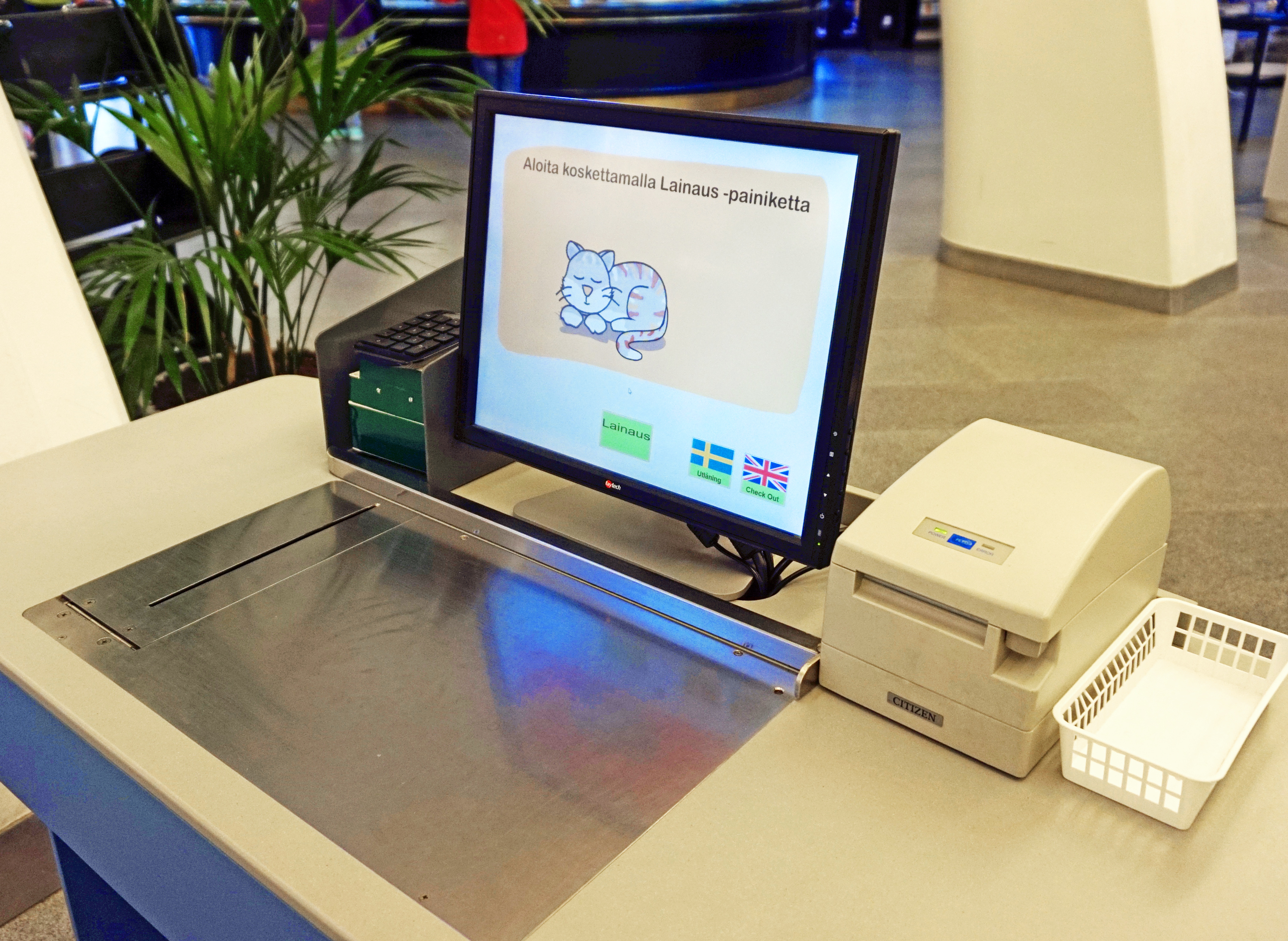 Book loaning machine in Tampere City Library.